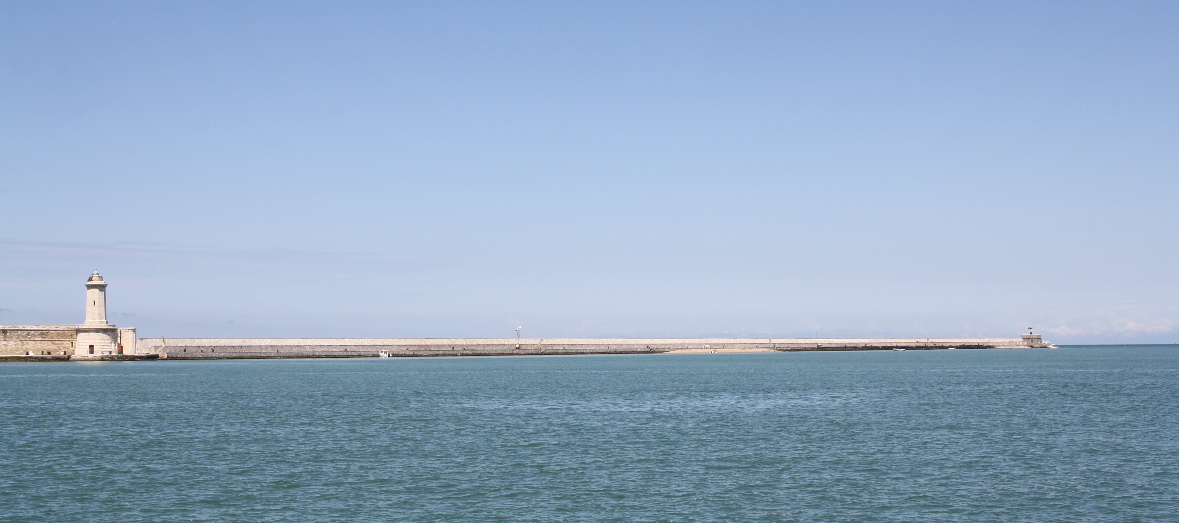 Italy, Port of Livorno. The Diga della Meloria.